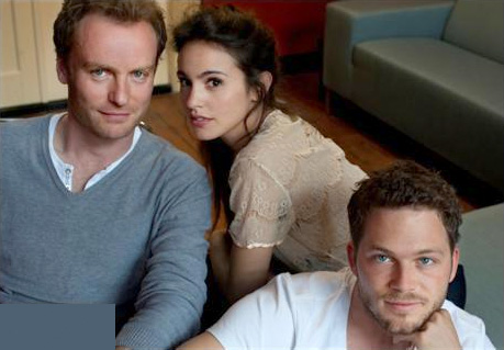 The &ME Cast, from left to right: Mark Waschke, Verónica Echegui, Teun Luijkx